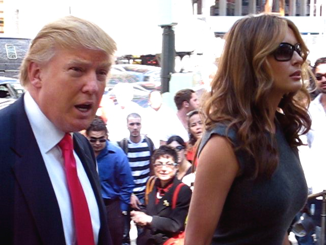 Donald Trump & Melania enter the Oscar De LA Renta Fashion Show, New York